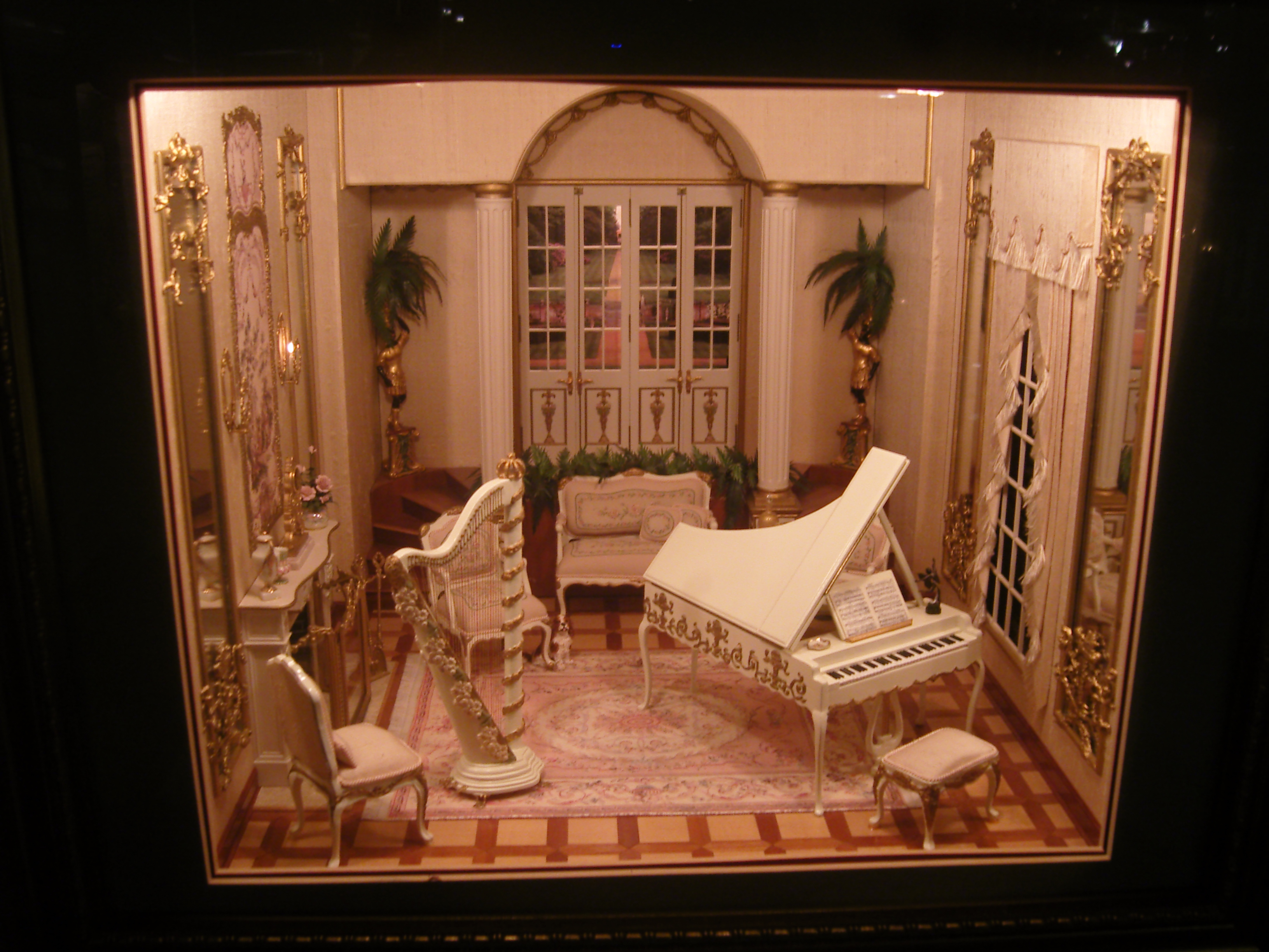 Miniatures Museum of Taiwan